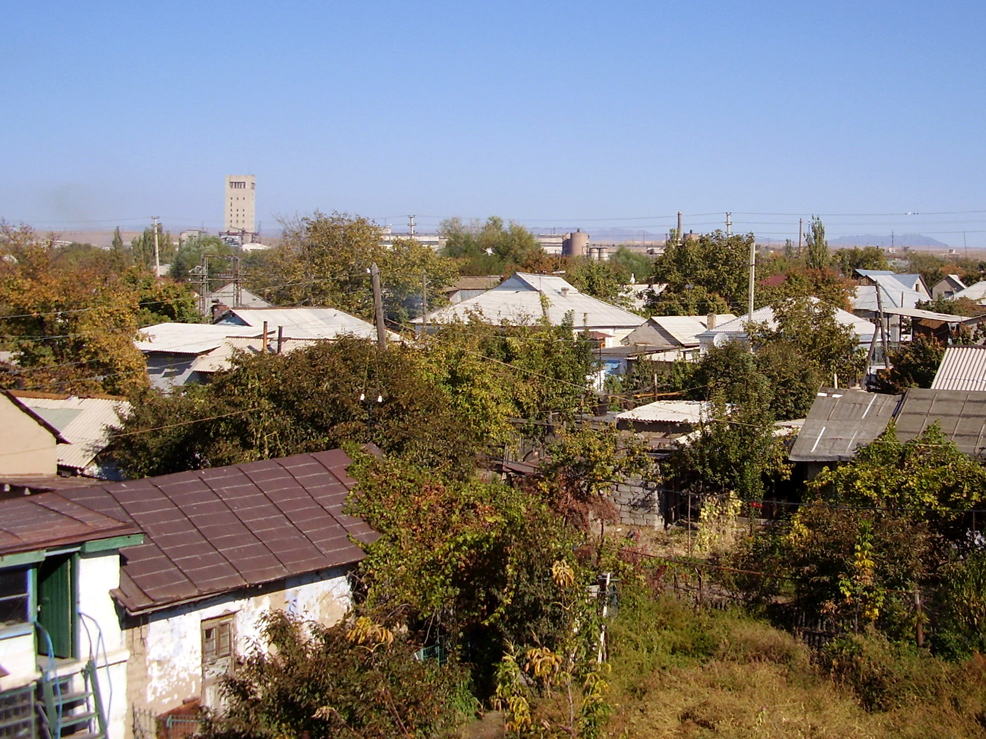 Kentau.